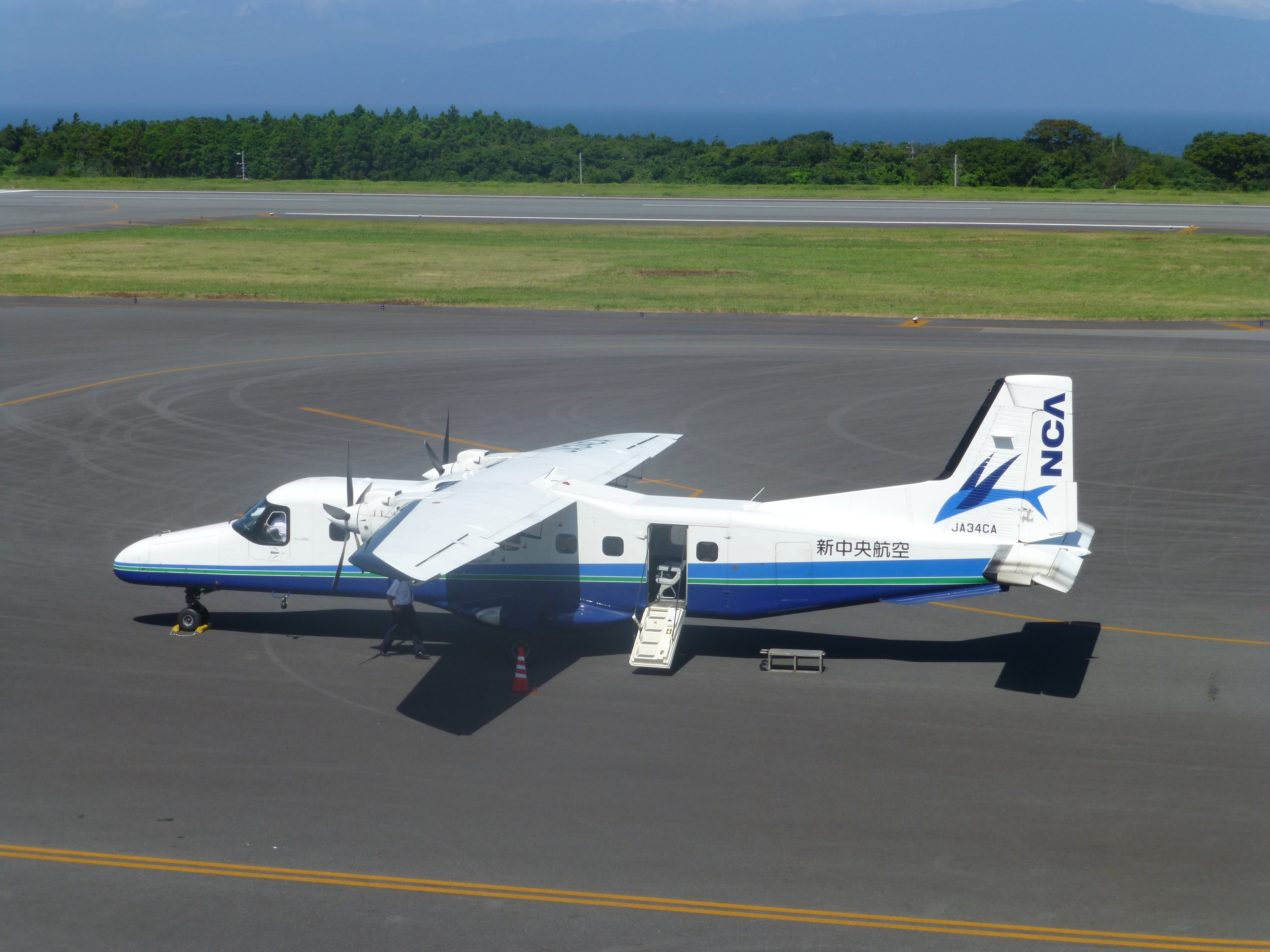 Do 228NG JA34CA at Oshima Airport